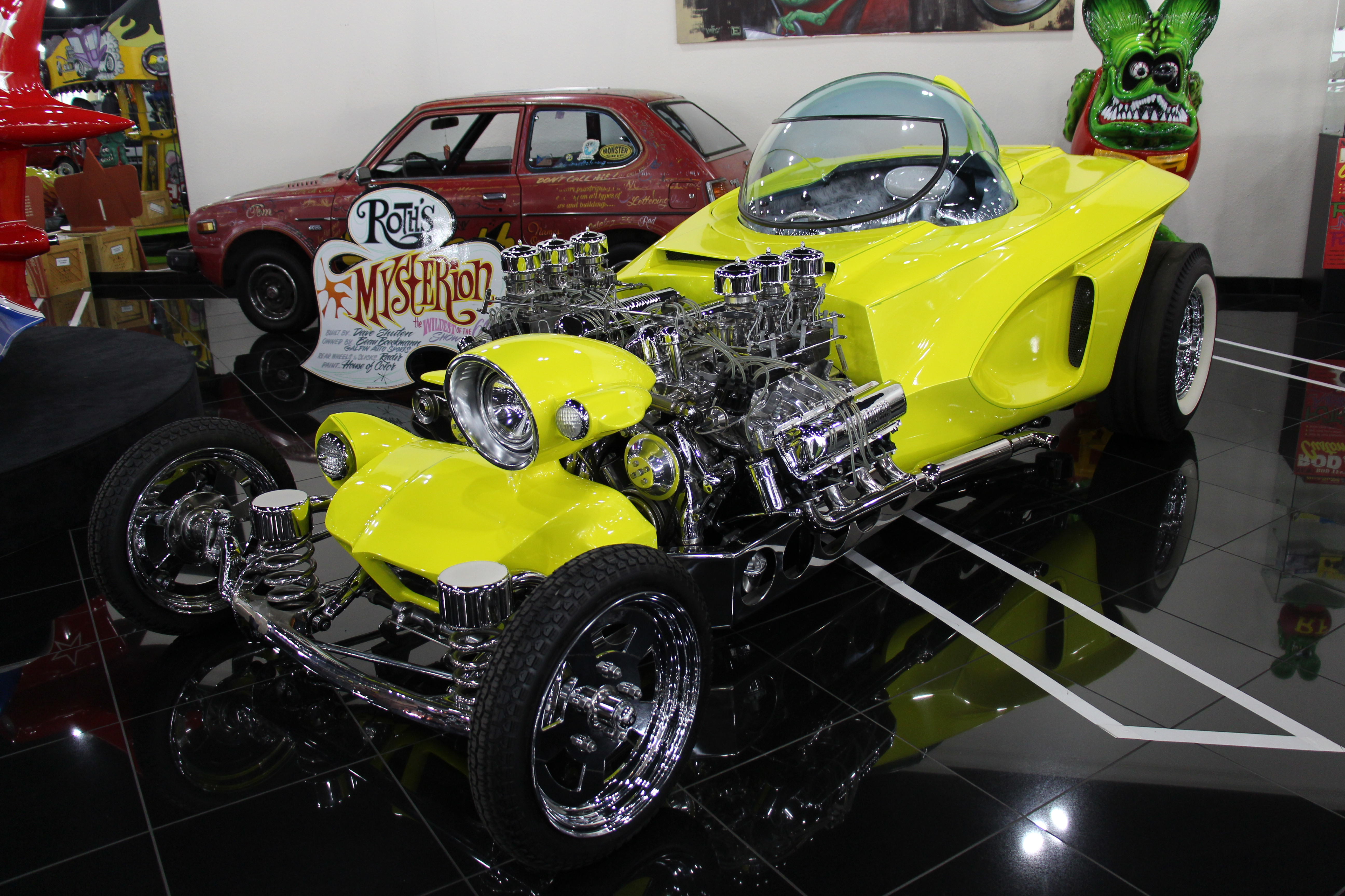 Ed 'Big Daddy' Roth was an artist, cartoonist, illustrator, pinstriper and custom car designer and builder who created the hot-rod icon Rat Fink and other characters. Roth was a key figure in Southern California's Kustom Kulture and hot-rod movement of the late 1950s and 1960s. Ed Roth built the Mysterion in 1963, he got the idea from the multi engine dragsters he had seen at the dragstrips. He combined two Ford engines, two transmissions, plus two welded rear ends for the foundation. It featured an offset headlight and the typical Ed Roth bubble top. On display at Galpin Auto Sports.